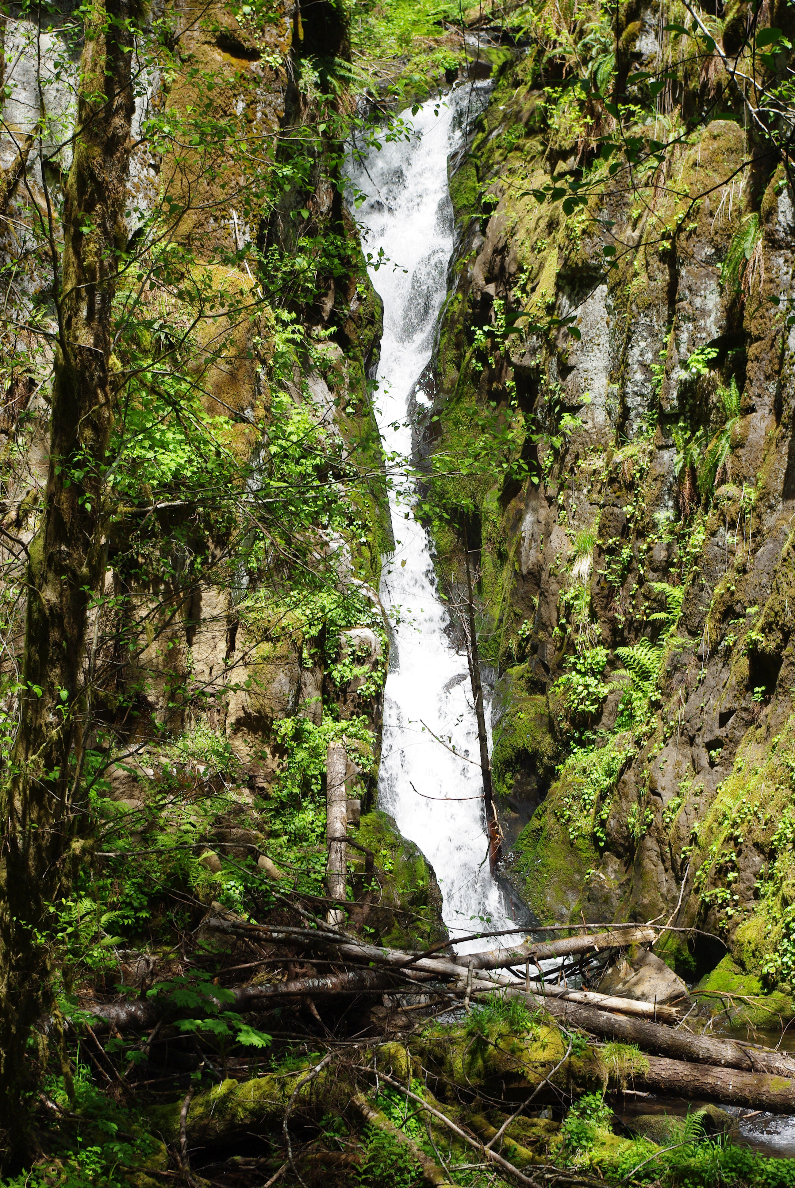 Portrait view of Ki-a-Kuts Falls